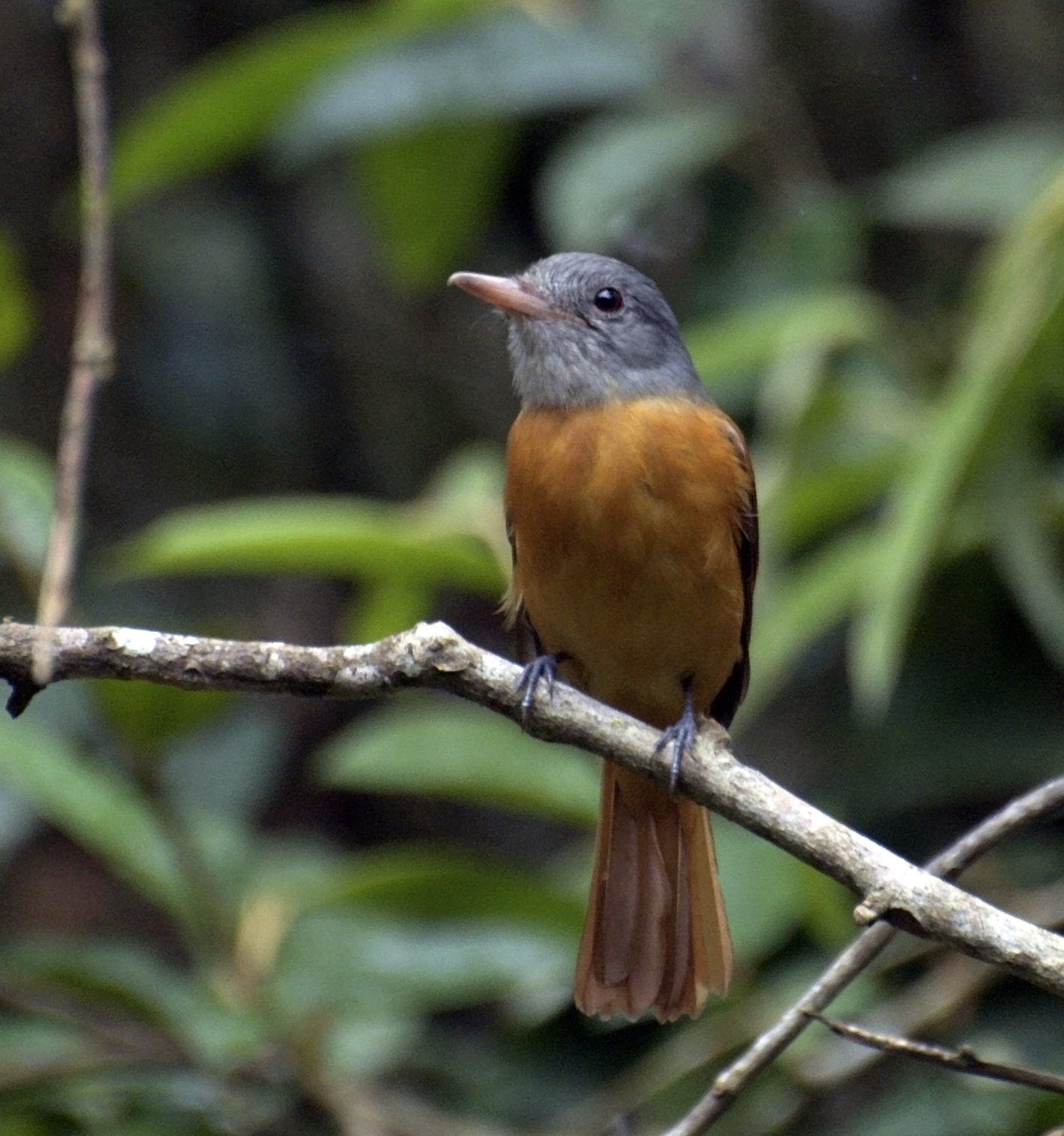 A Grey-hooded Attila in Vale do Ribeira, Registro, São Paulo, Brazil.